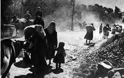 Armenian civilians fleeing Kars after being forced to leave their homes by Turkish troops circa 1920-1921.